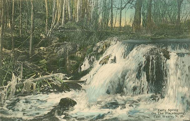 Early Spring on the Piscataquog, East Weare, NH; from a 1912 postcard.